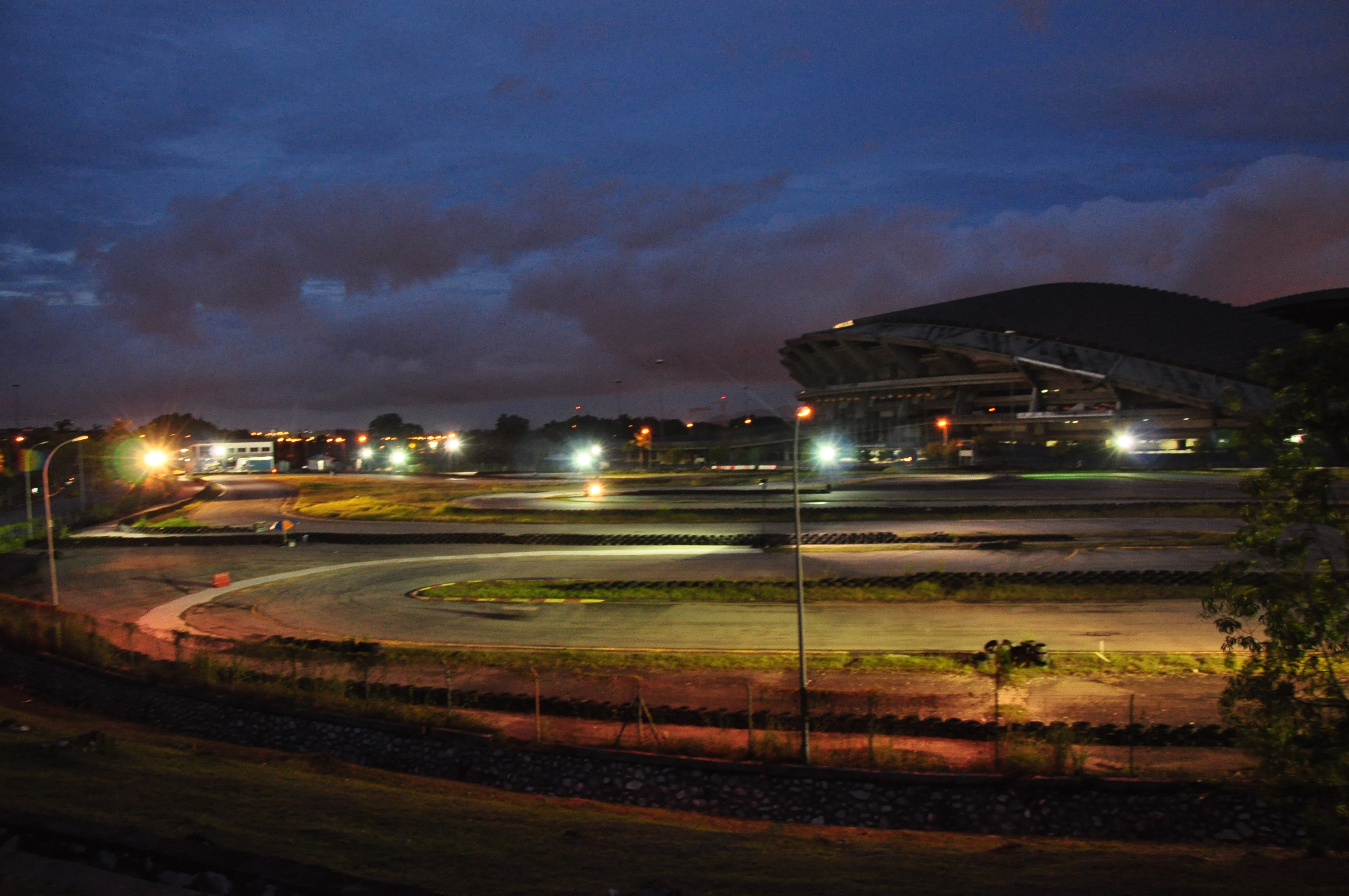 Shah Alam Racing Circuit